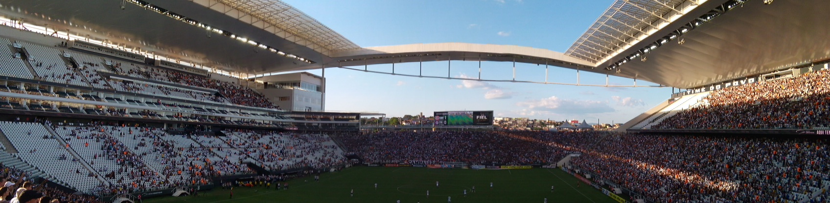 Domestic scene the afternoon of Arena Corinthians